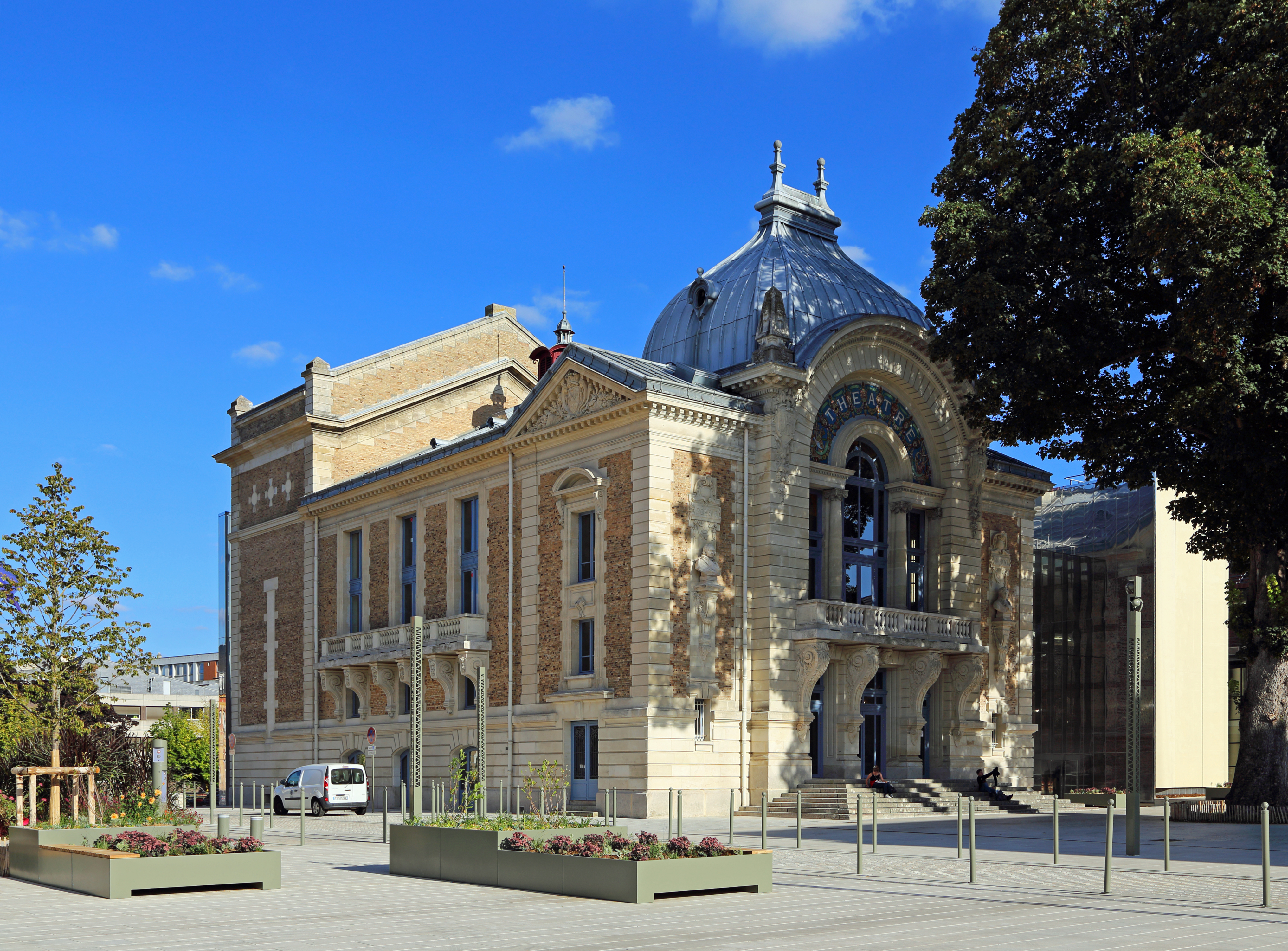 Évreux (Eure department, France): municipal theatre .